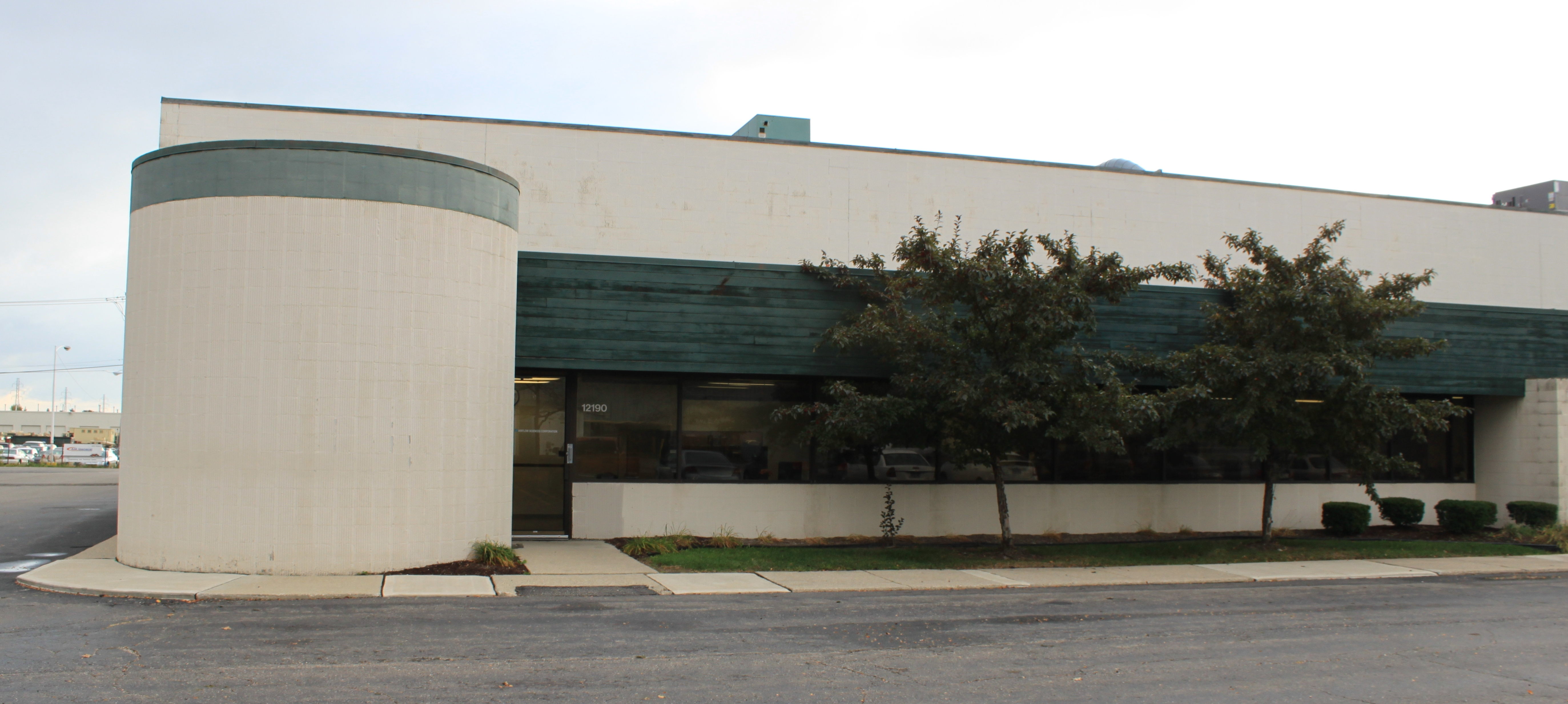 Airflow Sciences Corporation headquarters building, 12190 Hubbard Street, Livonia, Michigan.